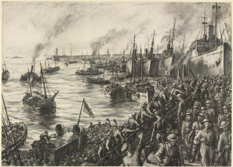 The Return from Dunkirk- Arrival at Dover image: a view of the disembarkation of troops evacuated from Dunkirk. A collection of ships, including small boats loaded with soldiers, are moored in Dover harbour, which is crowded with soldiers.